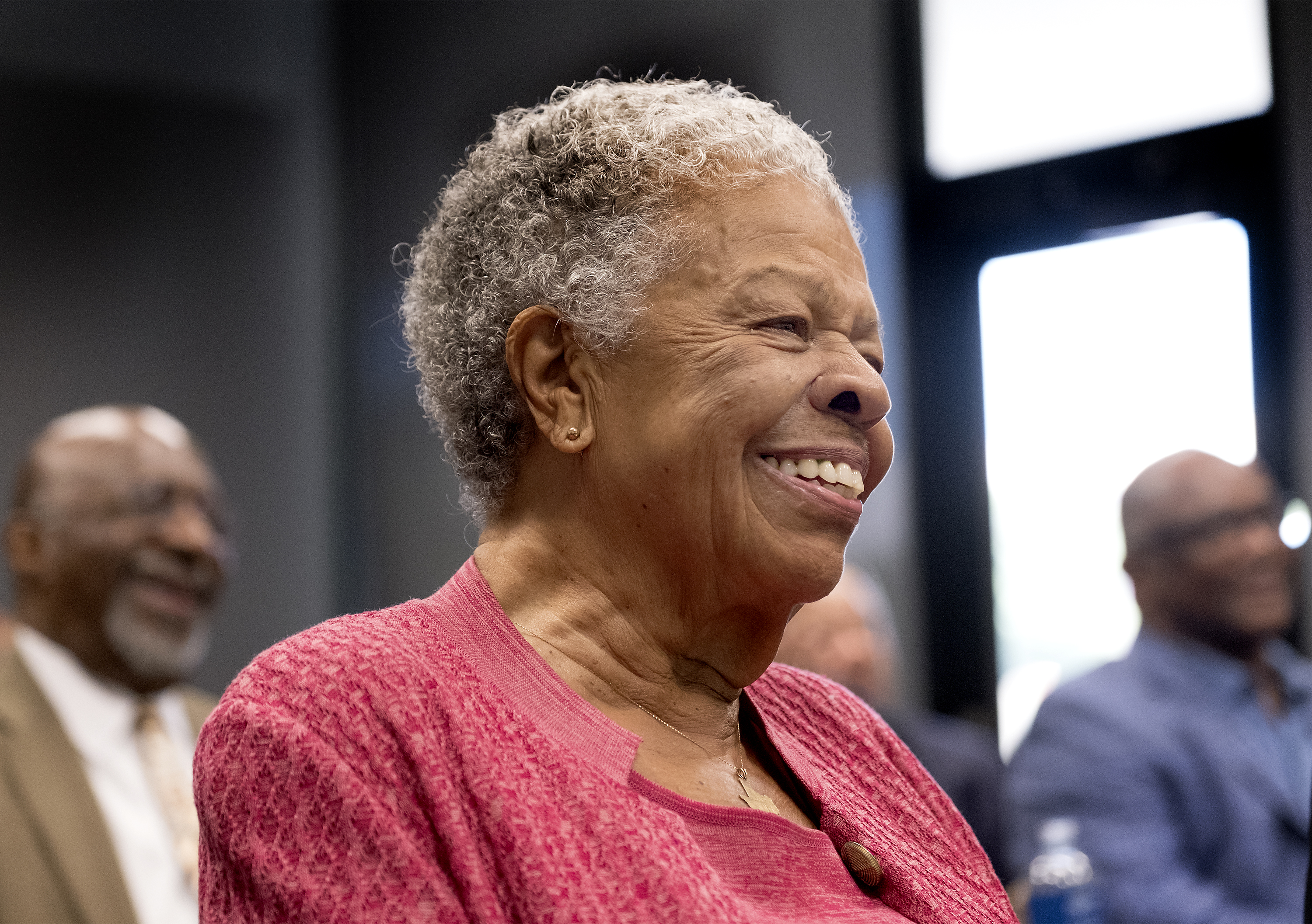 Former Texas state Rep. Wilhelmina Delco, D-Austin, listens as longtime civil rights leader Andrew Young addresses University of Texas at Austin students and community leaders at the Dolph Briscoe Center for American History at UT on Tuesday, April 9, 2019. His educational seminar is part of The Summit on Race in America being held at the LBJ Presidential Library. Young, a key lieutenant to Martin Luther King, Jr. in the civil rights movement of the 1960s, has served as mayor of Atlanta, U.S. congressman from Georgia, and U.S. Ambassador to the United Nations. The Summit on Race in America runs from April 8-April 10 at the LBJ Library. 04.09.2019 LBJ Library photo by Laura Skelding